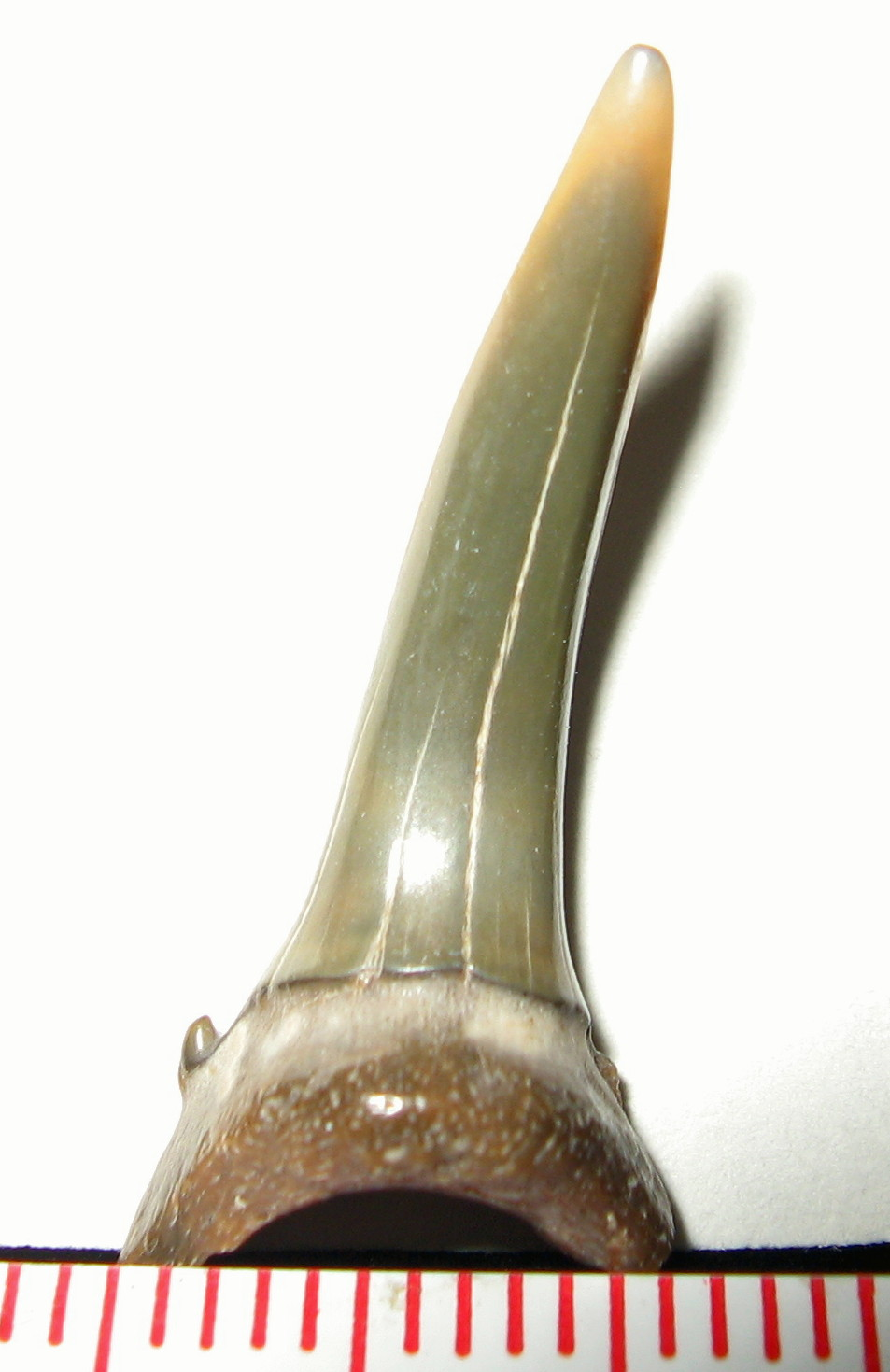 A fossil Odontaspis sp tooth ~2cm from gum line to tip. Miocene, Bone Valley Formation, Polk Co., Florida, USA